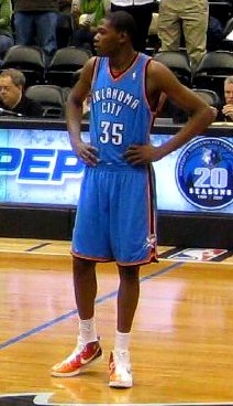 Kevin Durant waiting for the tip-off in OKC vs MIN game